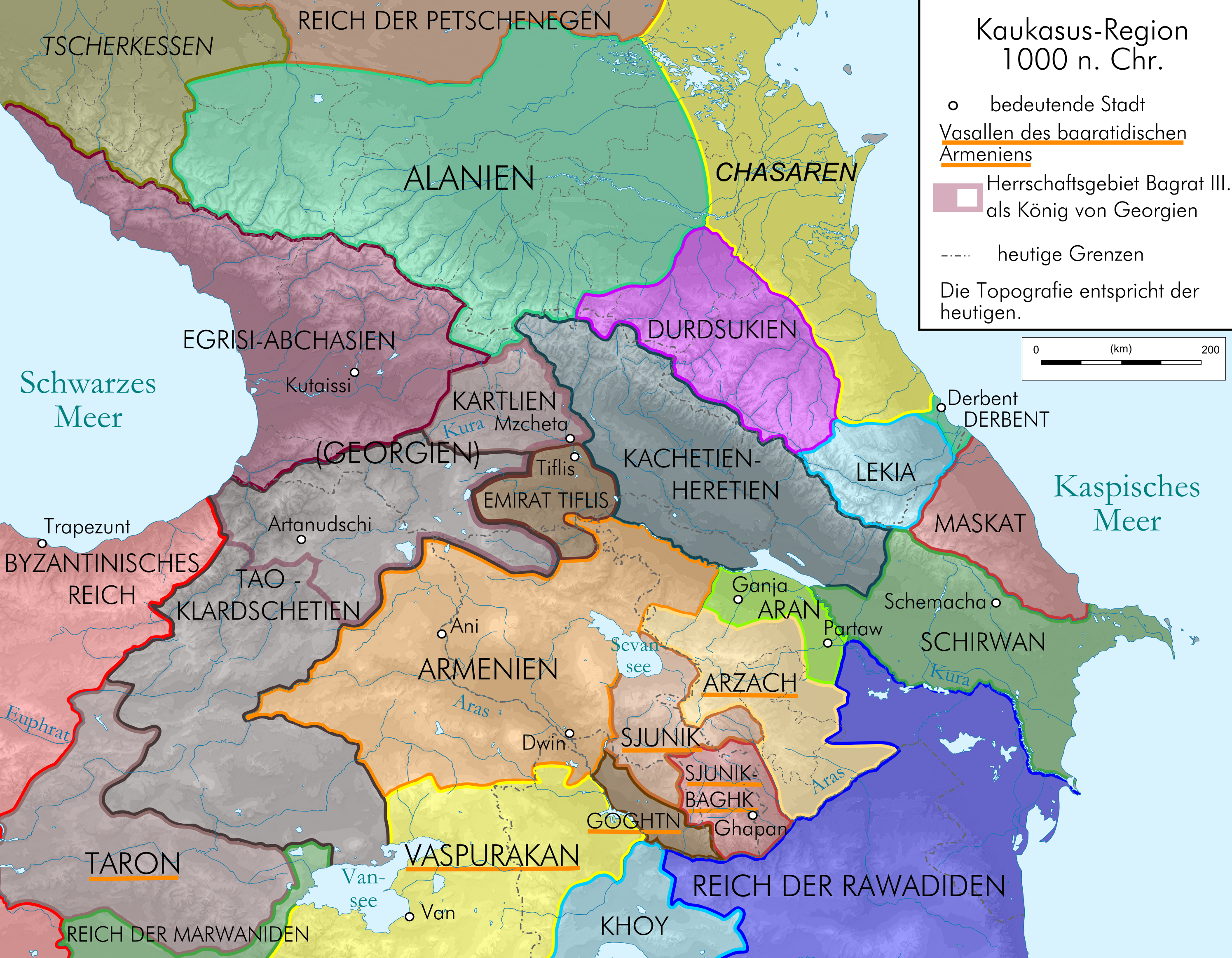 Map of Caucasus Region at 1000 AD before death of Dawit III., in German.